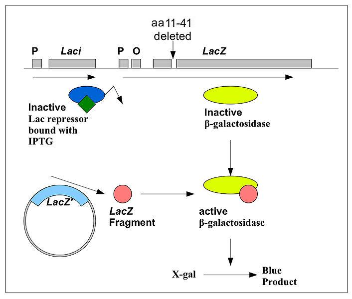 A schematic for the Blue-white assay for E coli. Used to screen for recombinant vectors.